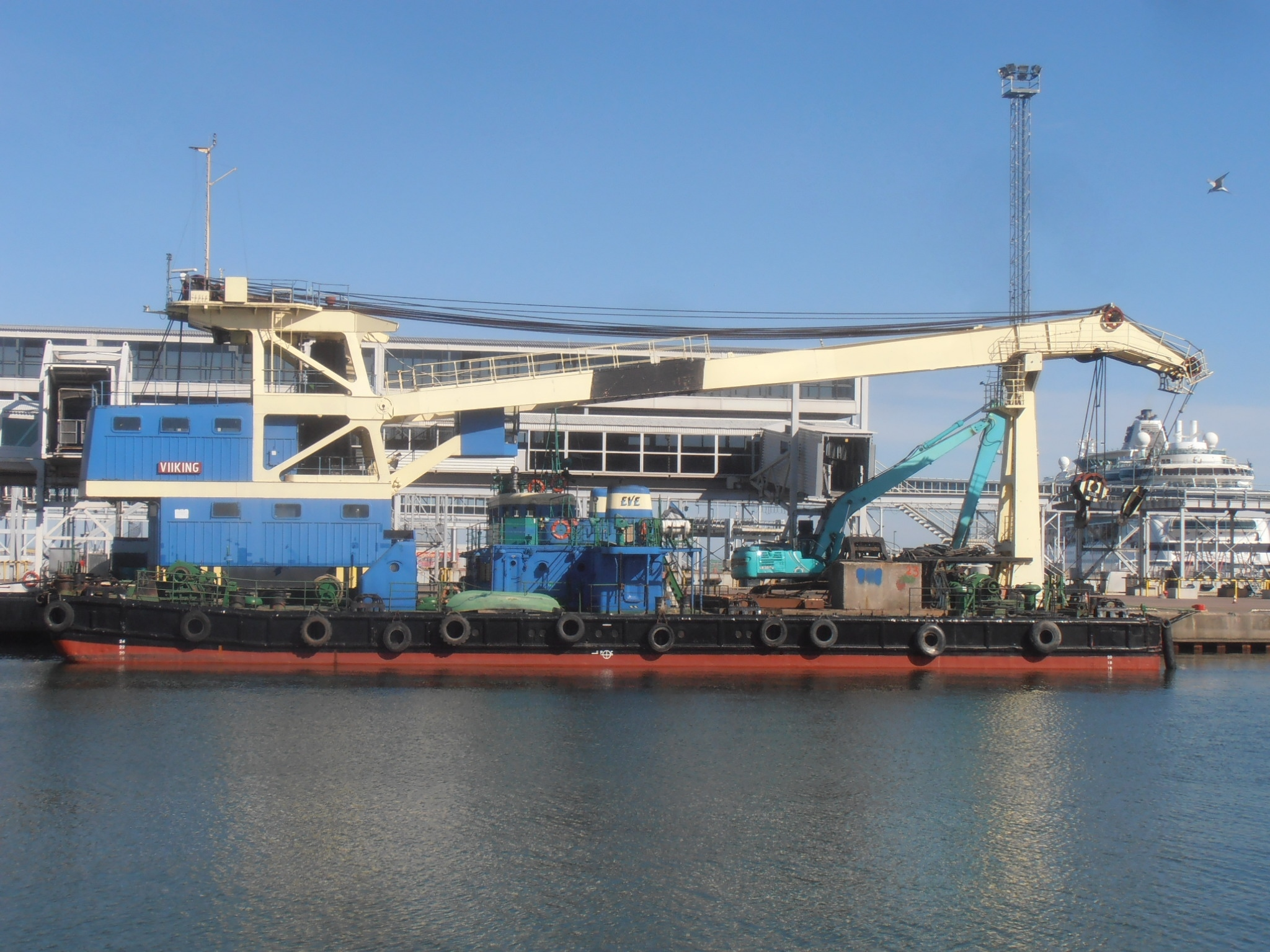 Viiking at quay 10 in Port of Tallinn 6 May 2018 (Brilliance of the Seas at quay 26 in the background)